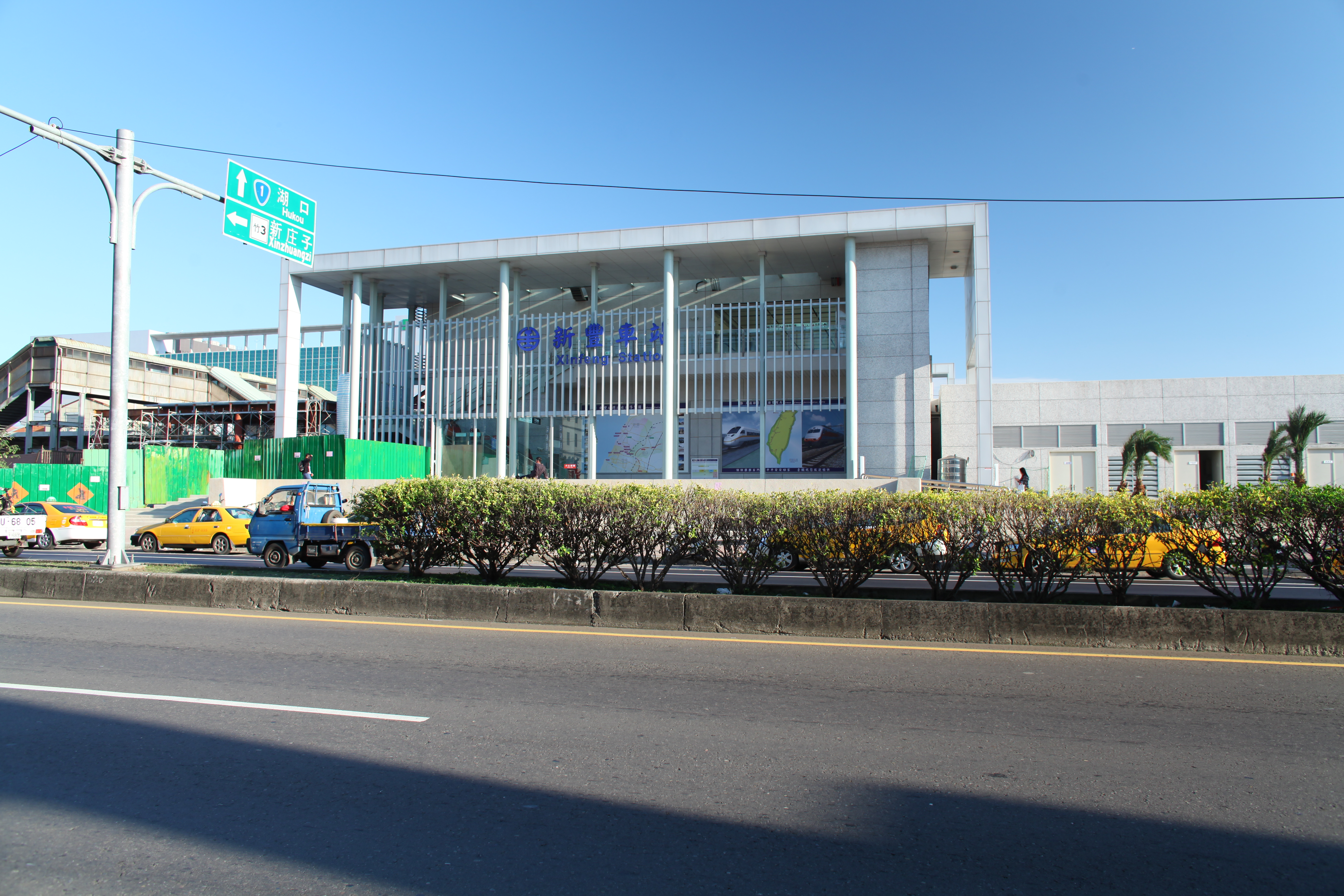 The Xinshing Road side entrance of TRA Xinfeng station